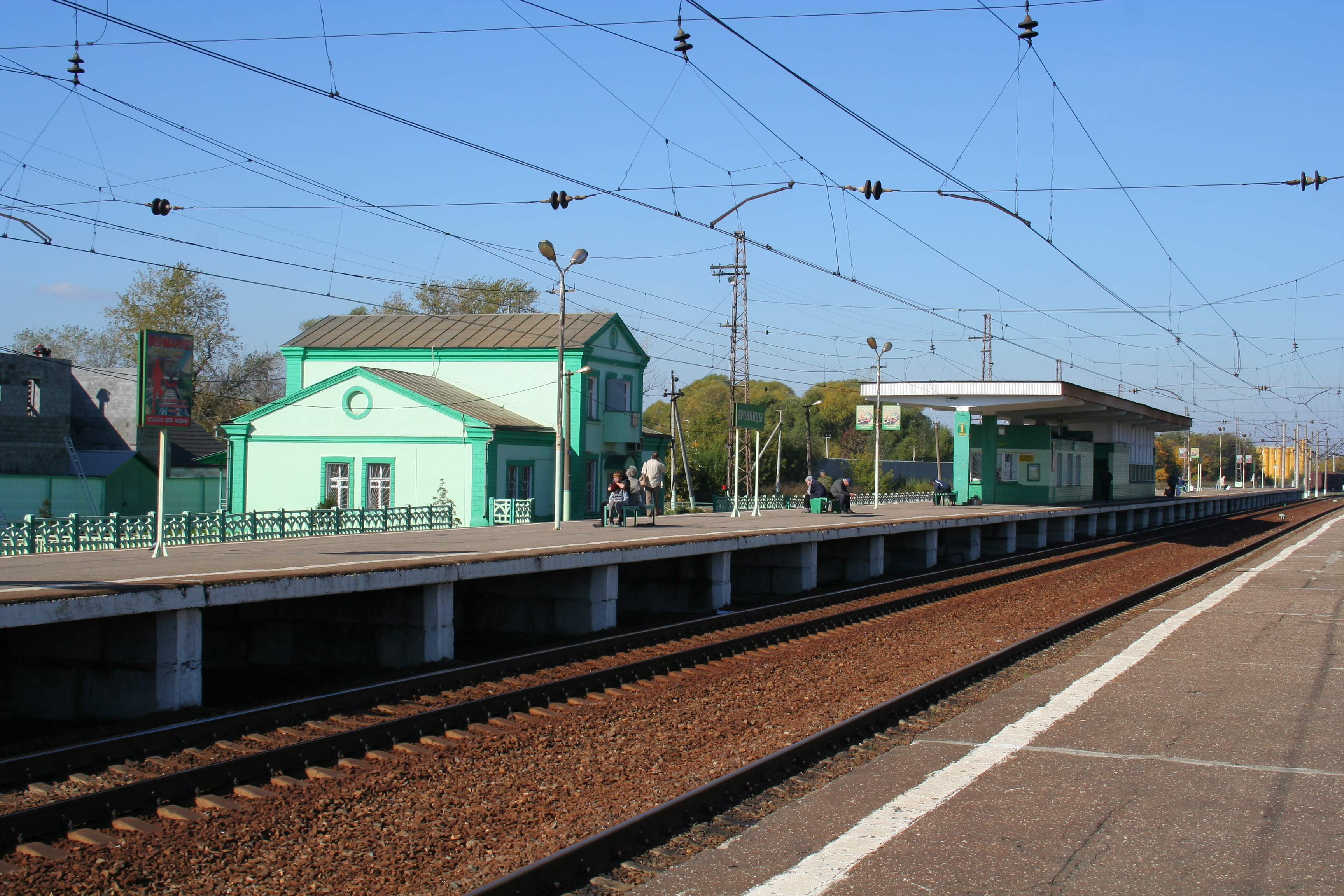 Train station Bronnitsy, Moscow Oblast